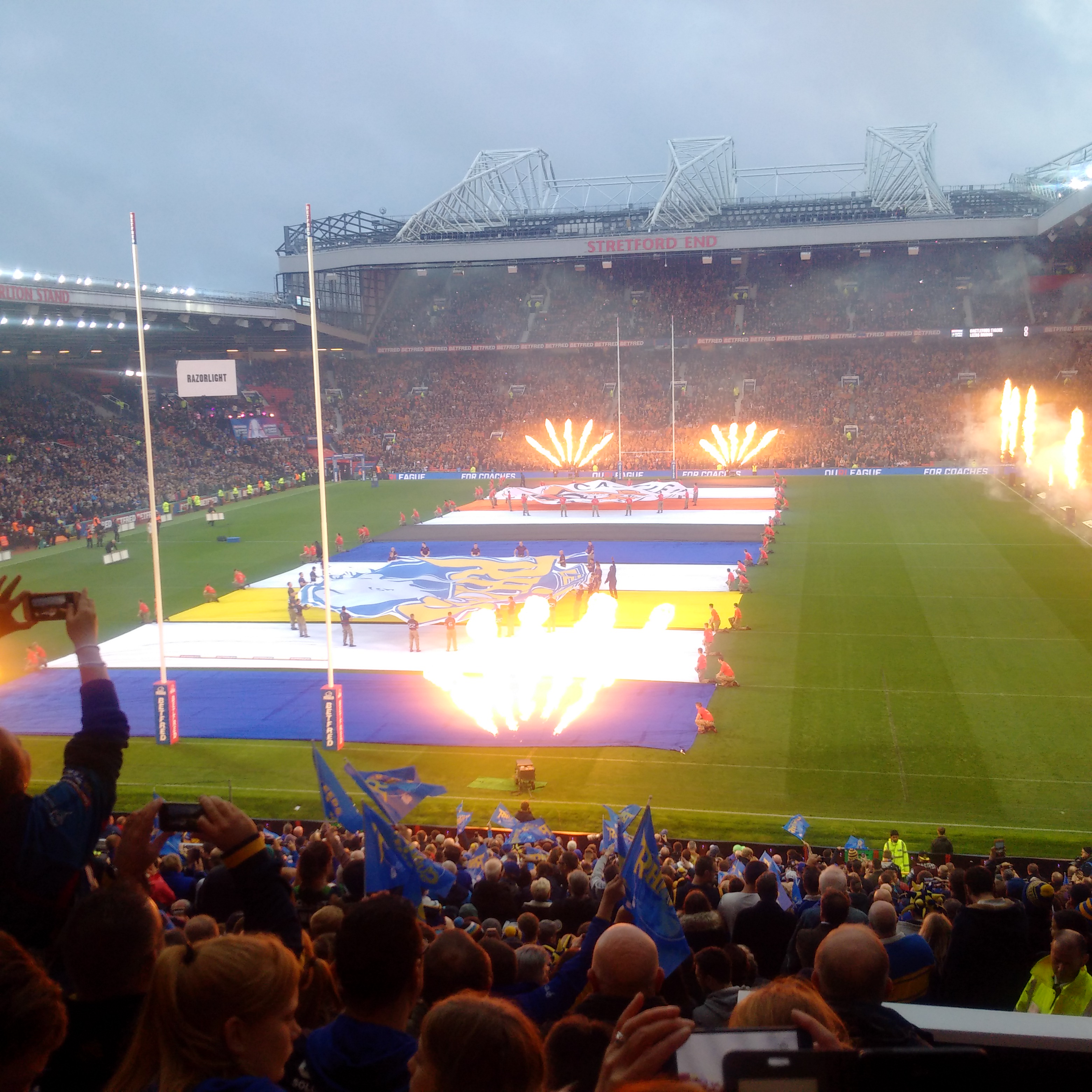 Betfred 2017 Super League Grand Final between Castleford Tigers and Leeds Rhinos. Leeds Rhinos won the game 24-6 (see match report [1]). Castleford had had a strong season up until this point winning the League leaders trophy; while seasoned veterans Leeds had had a difficult couple of seasons ([2]. The game took place at Old Trafford football ground in Manchester kicking off at 1800 BST on Saturday the 7th of October 2017.